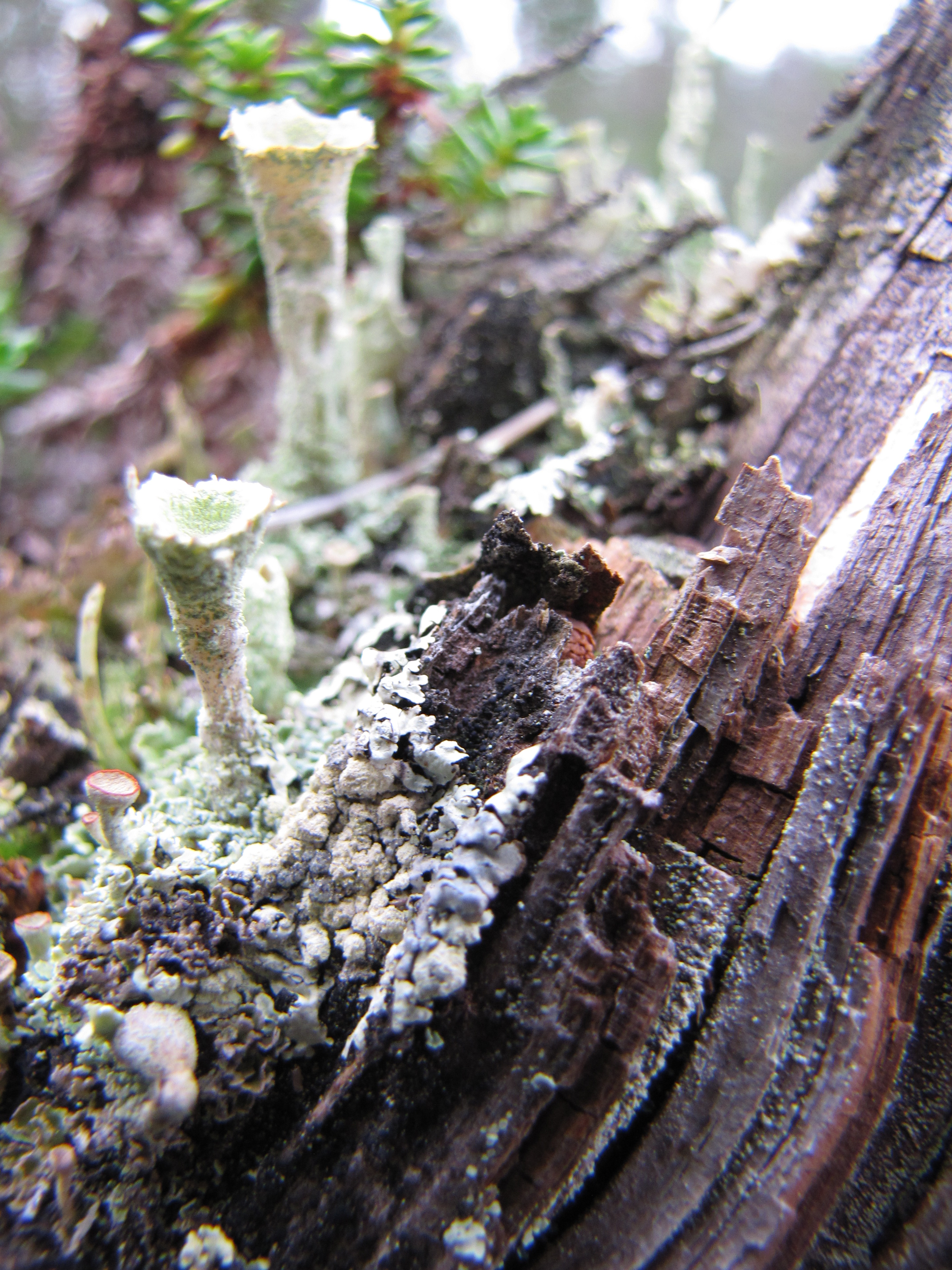 the most common reindeer´s food in the winter